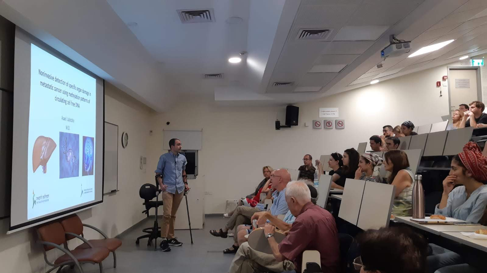 Dr. Asael Lubotzky delivering his 2019 Sivarsten award lecture. The James Sivartsen Prize in Cancer Research is awarded each year to a Hebrew University researcher who is doing the most innovative work with application to the field of pediatric cancer research.